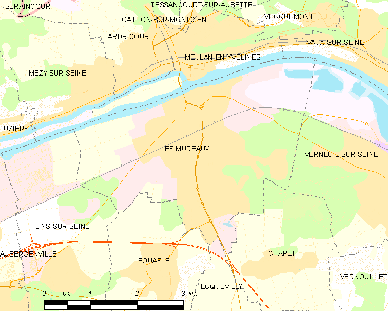 Map of French municipality Les Mureaux